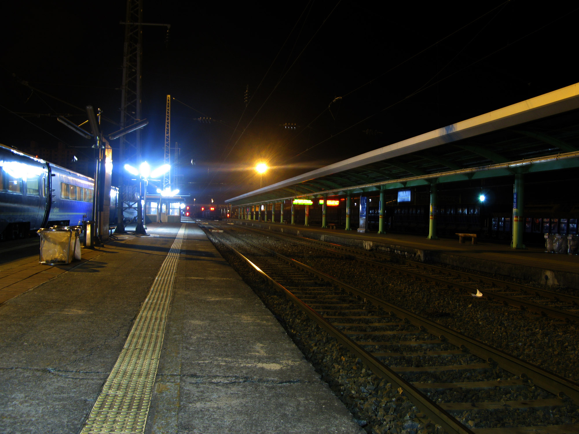 Yeongdong, Samcheok, Mukhohang, Bukpyeong Line Donghae Station Platform